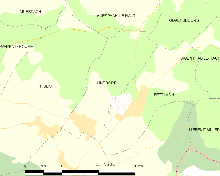 Map of French municipality